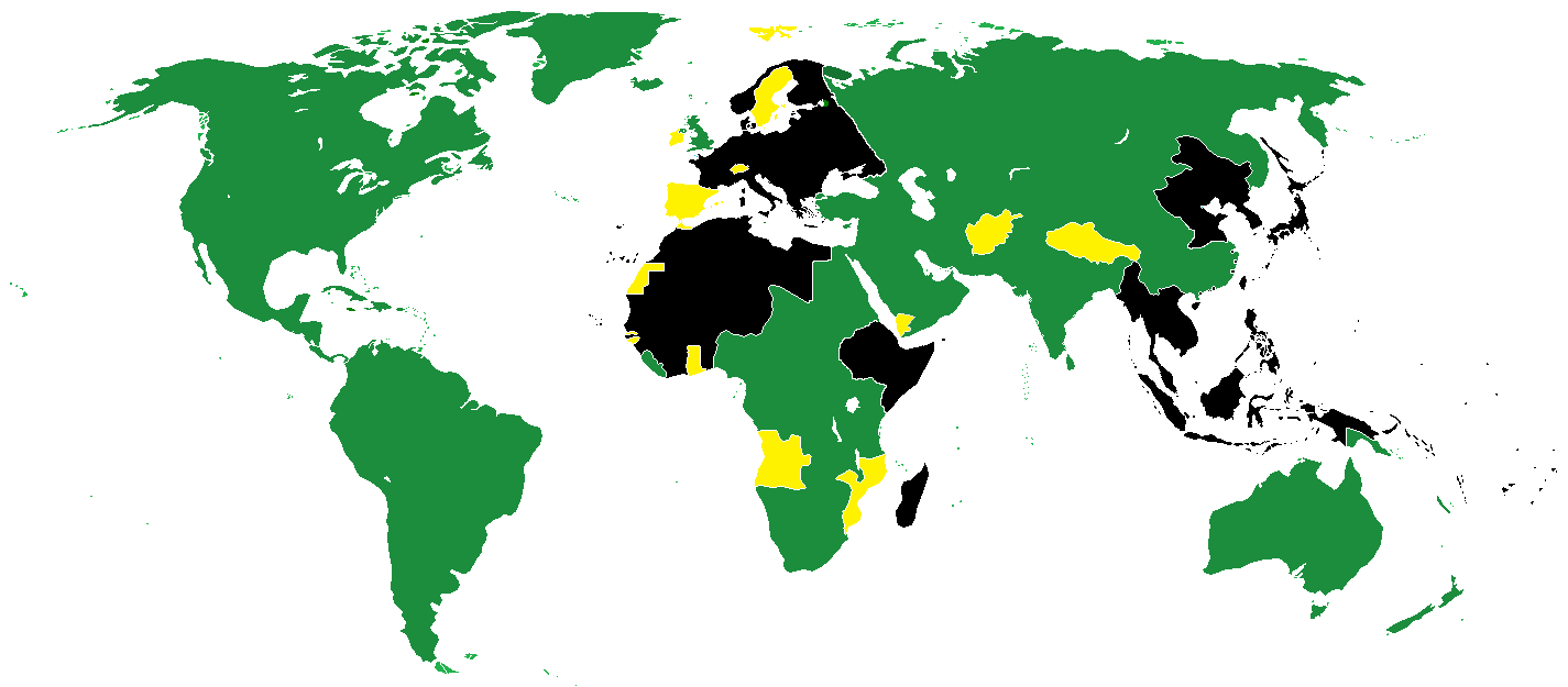 Zenith of the Axis Powers.